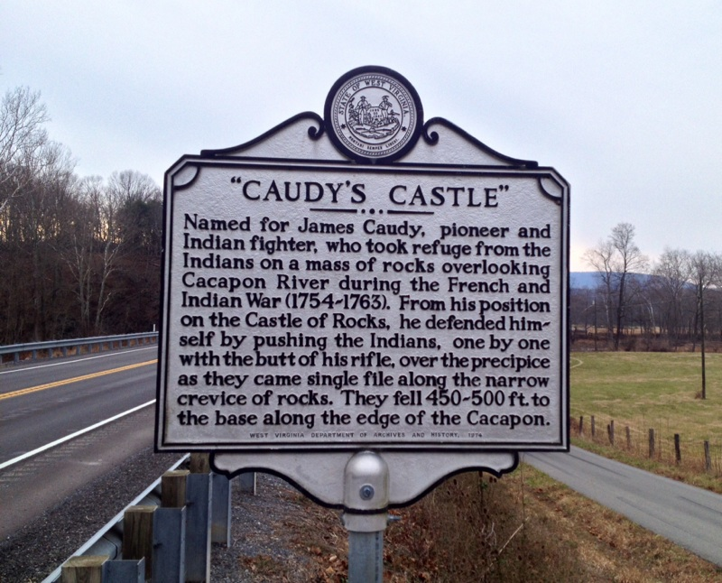 A West Virginia state highway historical marker commemorating an event involving American frontiersman James Caudy in which Caudy defended himself against Native American fighters atop the Caudy's Castle rock formation overlooking the Cacapon River in Hampshire County, West Virginia. The marker reads: "Named for James Caudy, pioneer and Indian fighter, who took refuge from the Indians on a mass of rocks overlooking Cacapon River during the French and Indian War (1754-1763). From his position on the Castle of Rocks, he defended himself by pushing the Indians, one by one with the butt of his rifle, over the precipice as they came single file along the narrow crevice of rocks. They fell 450-500 feet to the base along the edge of the Cacapon." The highway historical marker is located along West Virginia Route 127 approximately 1.5 miles east of West Virginia Route 29 near Forks of Cacapon, West Virginia.